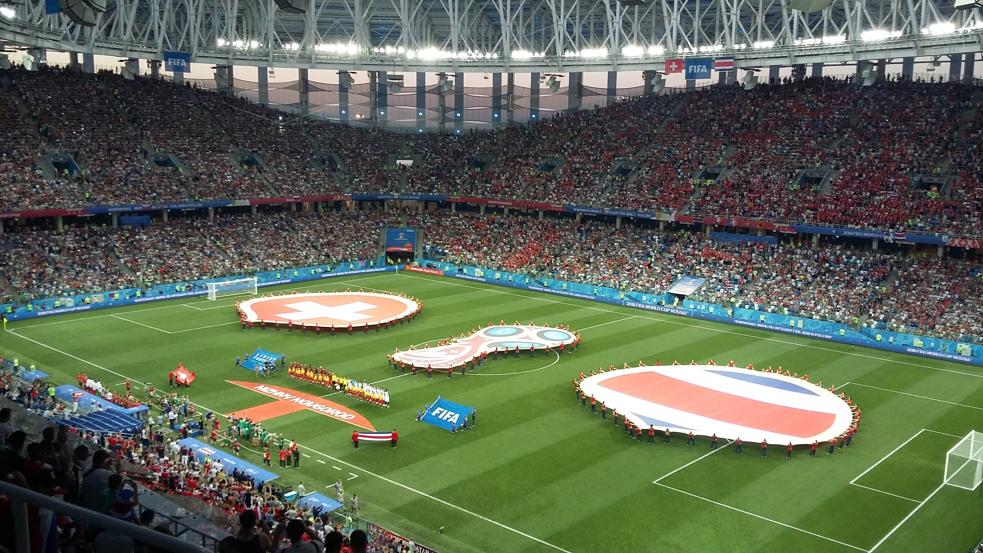 Nizhniy Novgorod Stadium, 2018-06-27.